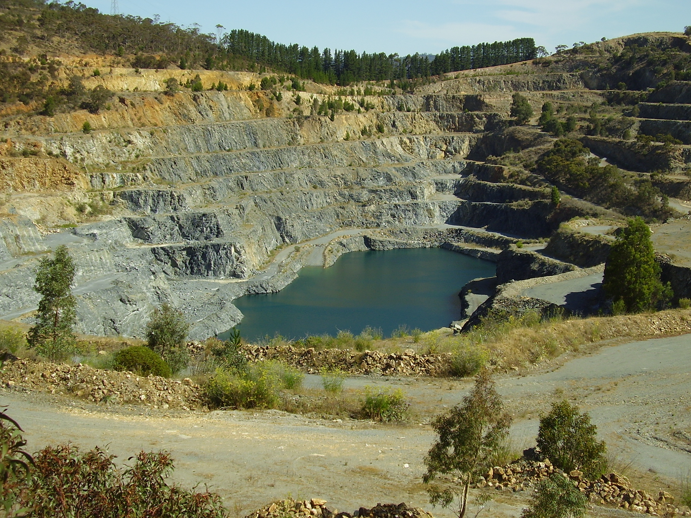 Disused stone quarry used to create road metal for asphalt surfaces. In the Adelaide Hills, South Australia, next to Anstey Hill Recreation park.